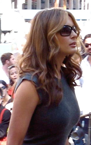 (Donald Trump &) Melania enter the Oscar de la Renta Fashion Show, New York